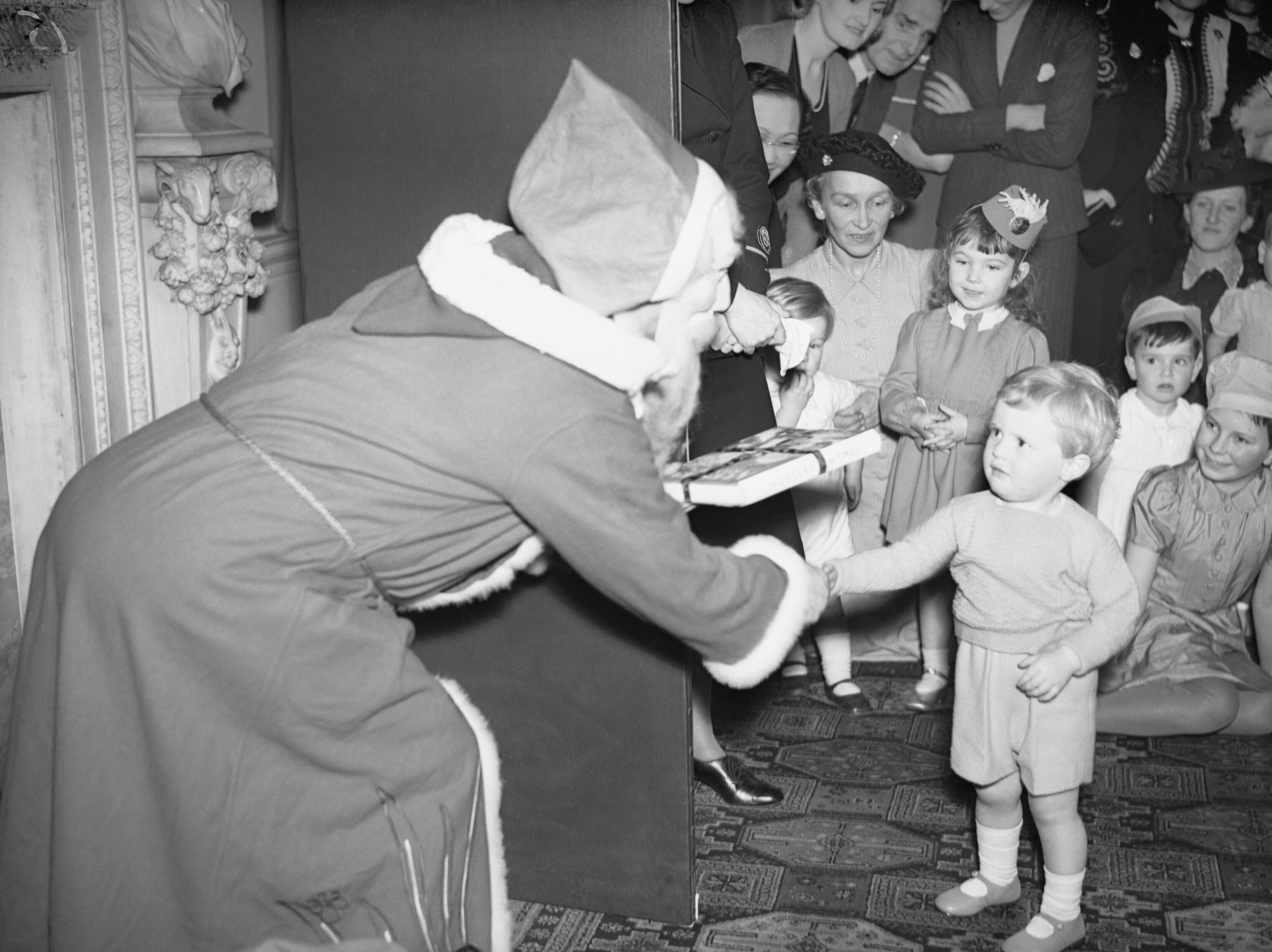 Father Christmas' presents Winston Churchill Jr., the Prime Minister's grandson, with a gift at a Christmas party at Admiralty House in London, 17 December 1942. 'Father Christmas' in a costume and mask presents a young boy with a gift of a book of nursery rhymes whilst shaking his hand. This boy and other children are attending a Christmas party held at Admiralty House, London. Some children wear hats and smart clothing. The boy is Winston Churchill Jr, the Prime Minister's grandson.